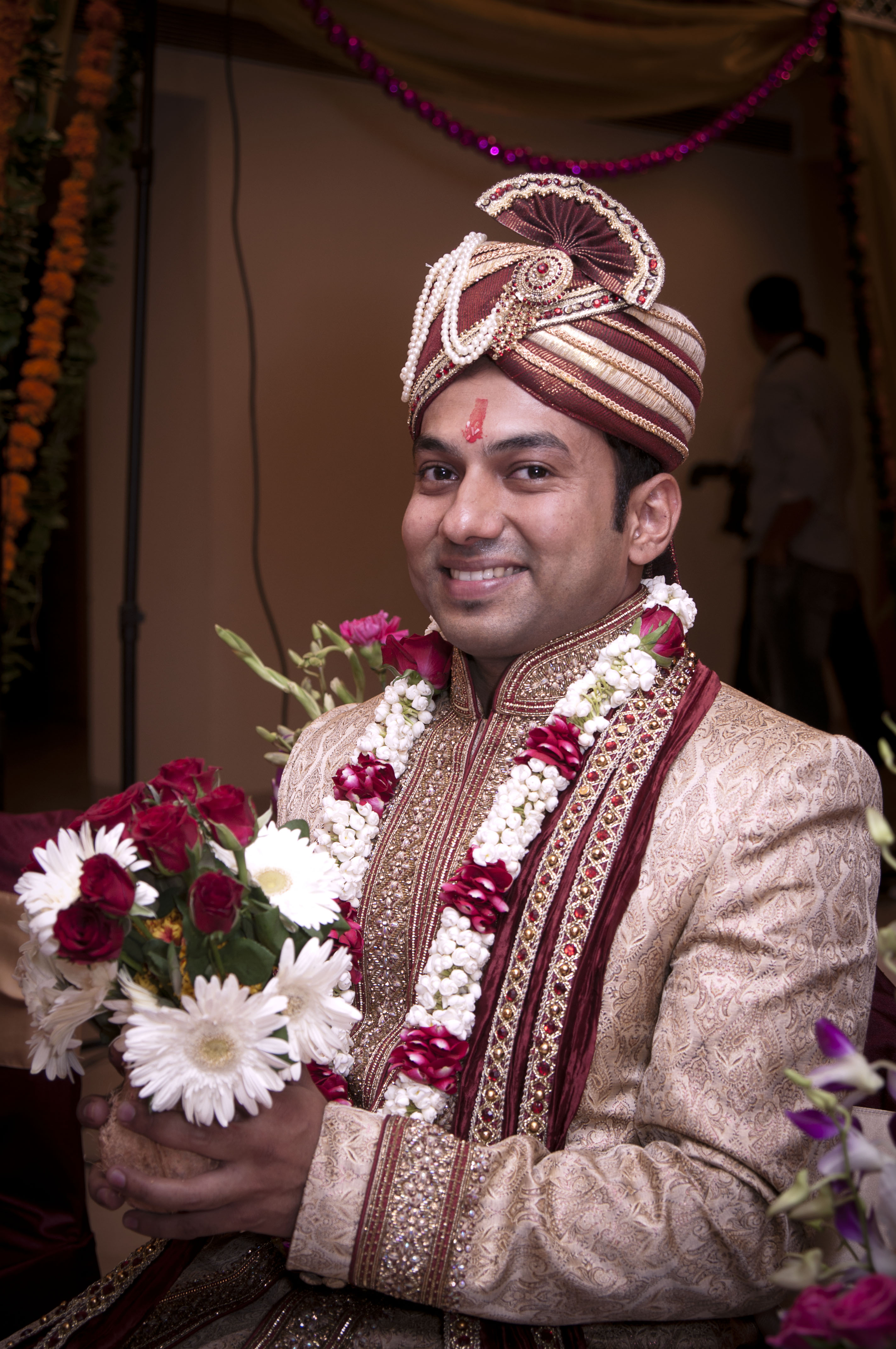 Photographer who loves clicking precious moments of your life, be it wedding, engagement or birthday celebration.... If you wish to store your precious moments I am just call away 09428706249 or mail at Facebook link kunjan photography